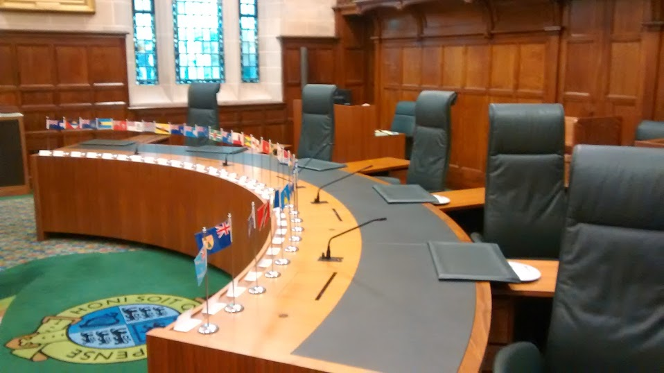 Court 3 in the Supreme Court Building, used by the Judicial Committee of the Supreme Court.